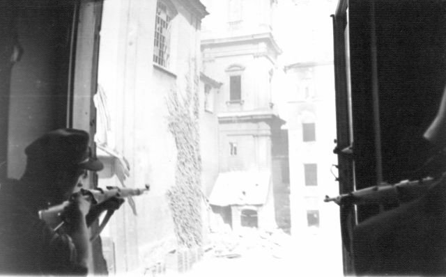 Warsaw Uprising: Insurgent shooting in direction of Holy Cross Church and Police Station at Krakowskie Przedmieście Street.